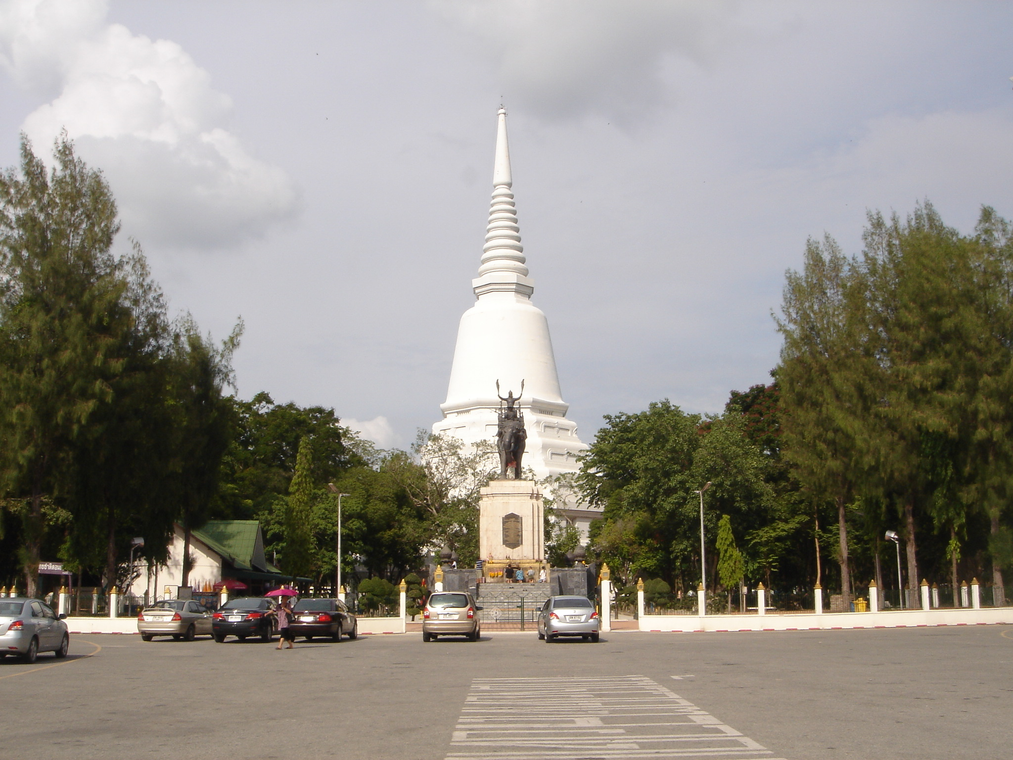 War memorial, Amphoe Don Chedi, Suphanburi Province, Thailand